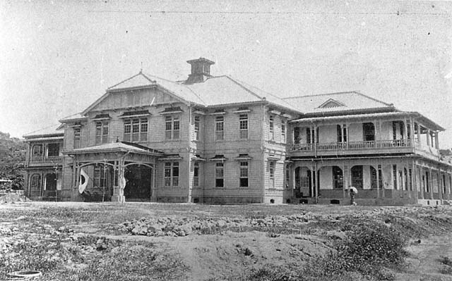 Takao Hospital